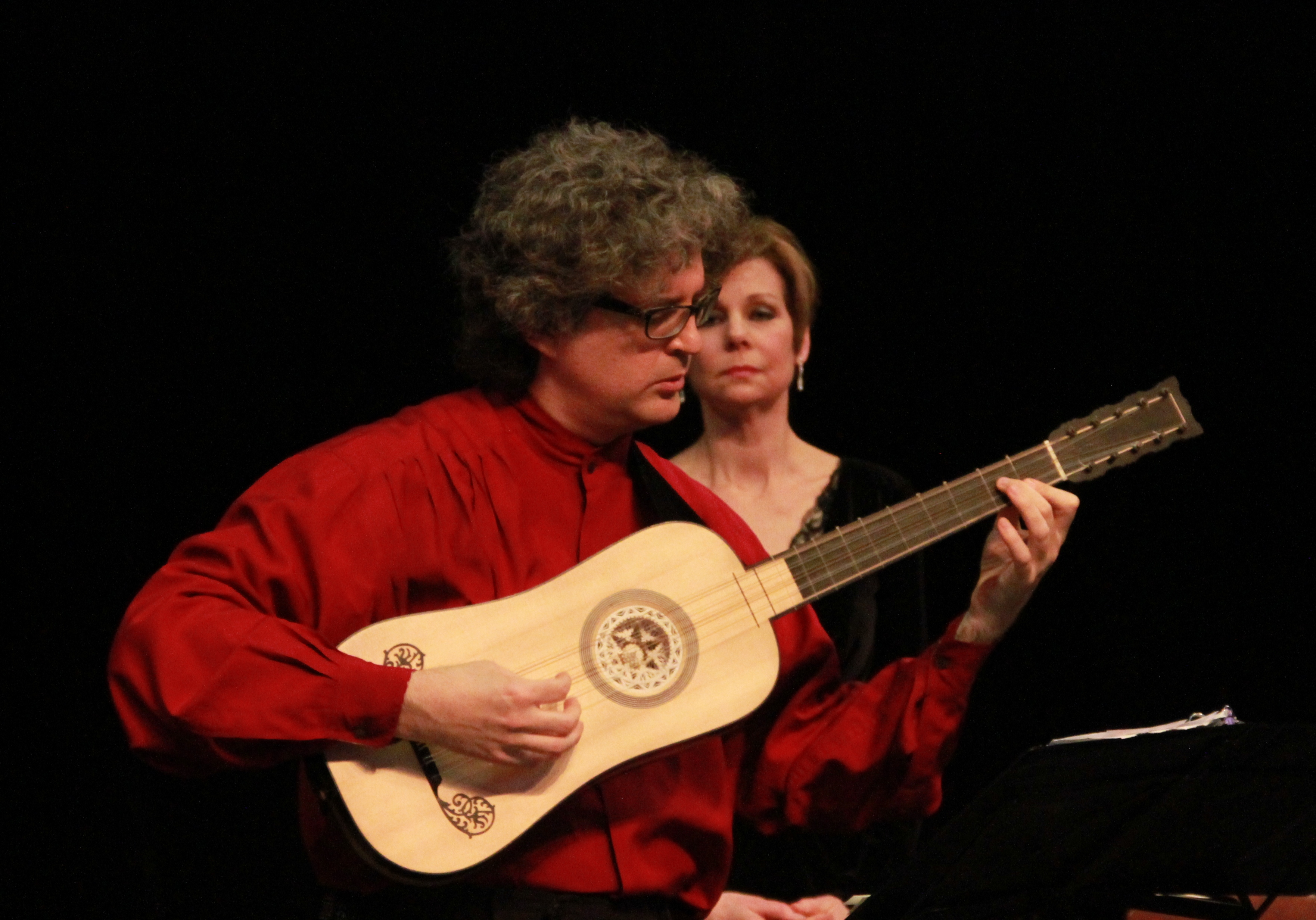 Christopher Morrongiello playing a baroque guitar (by Princess Ruto, 2013-02-11)